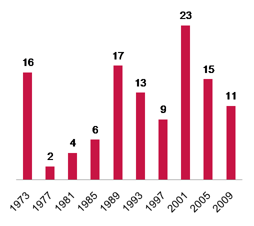 Seats of the Norwegian Socialist Left Party since 1973.